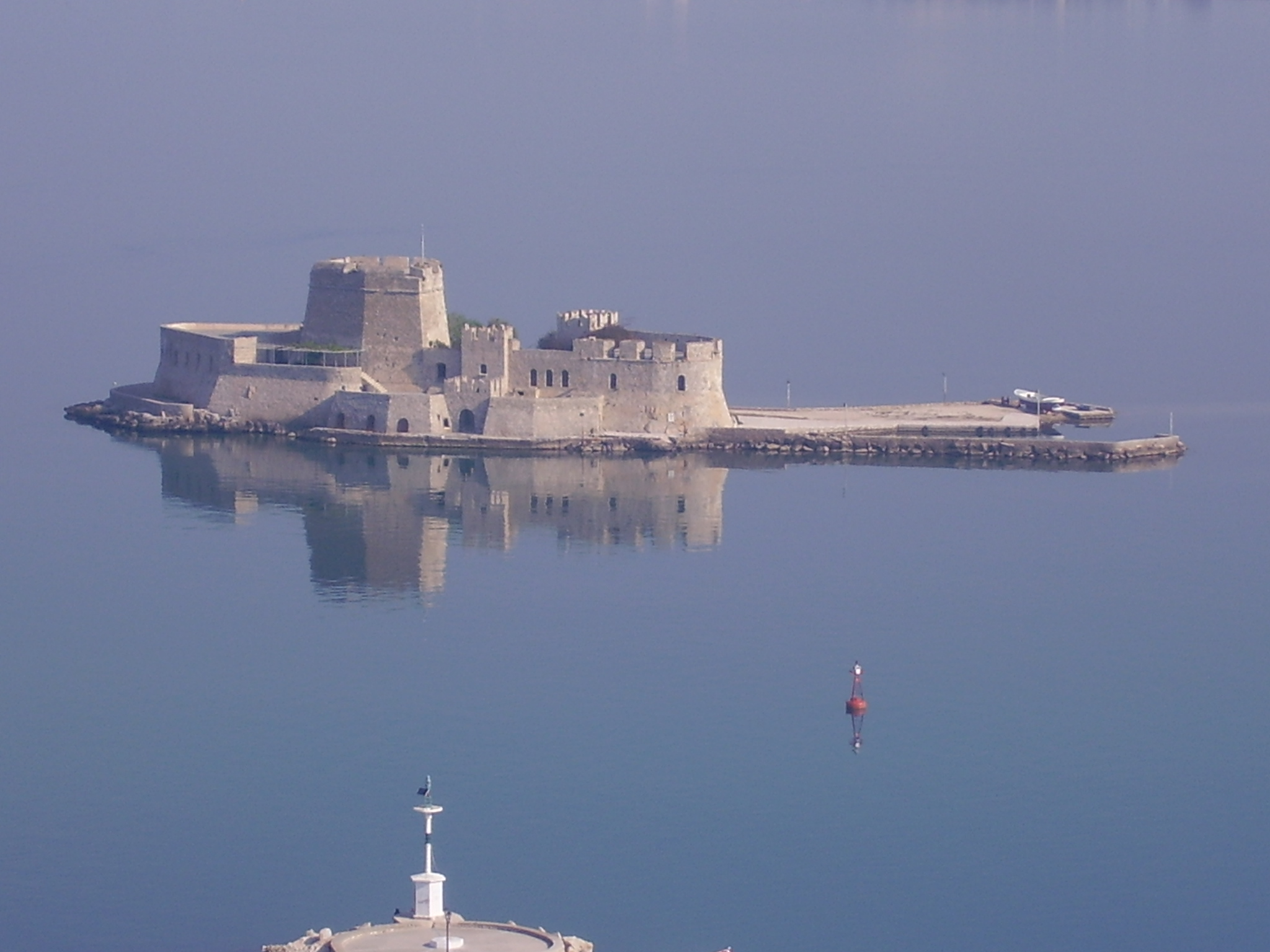 Photo of Bourtzi, Nafplion, 2006. Taken by User:FocalPoint.